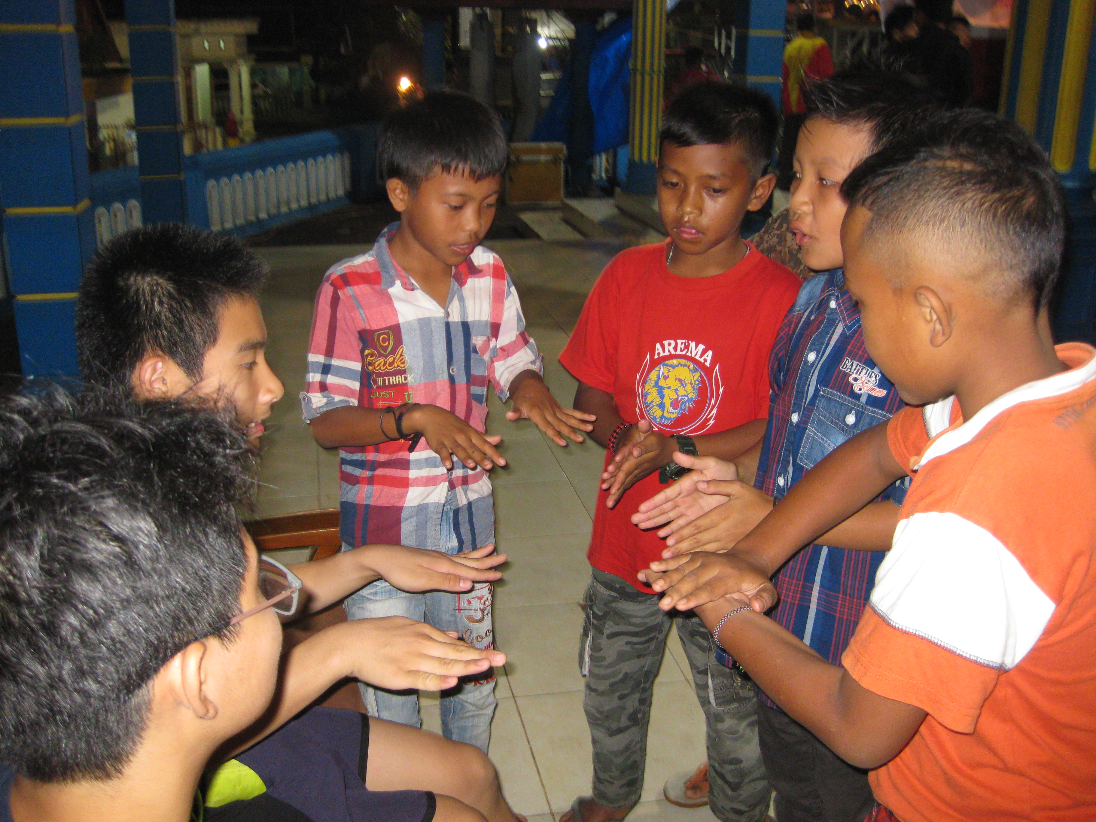 Picture of kids playing the hompimpa game